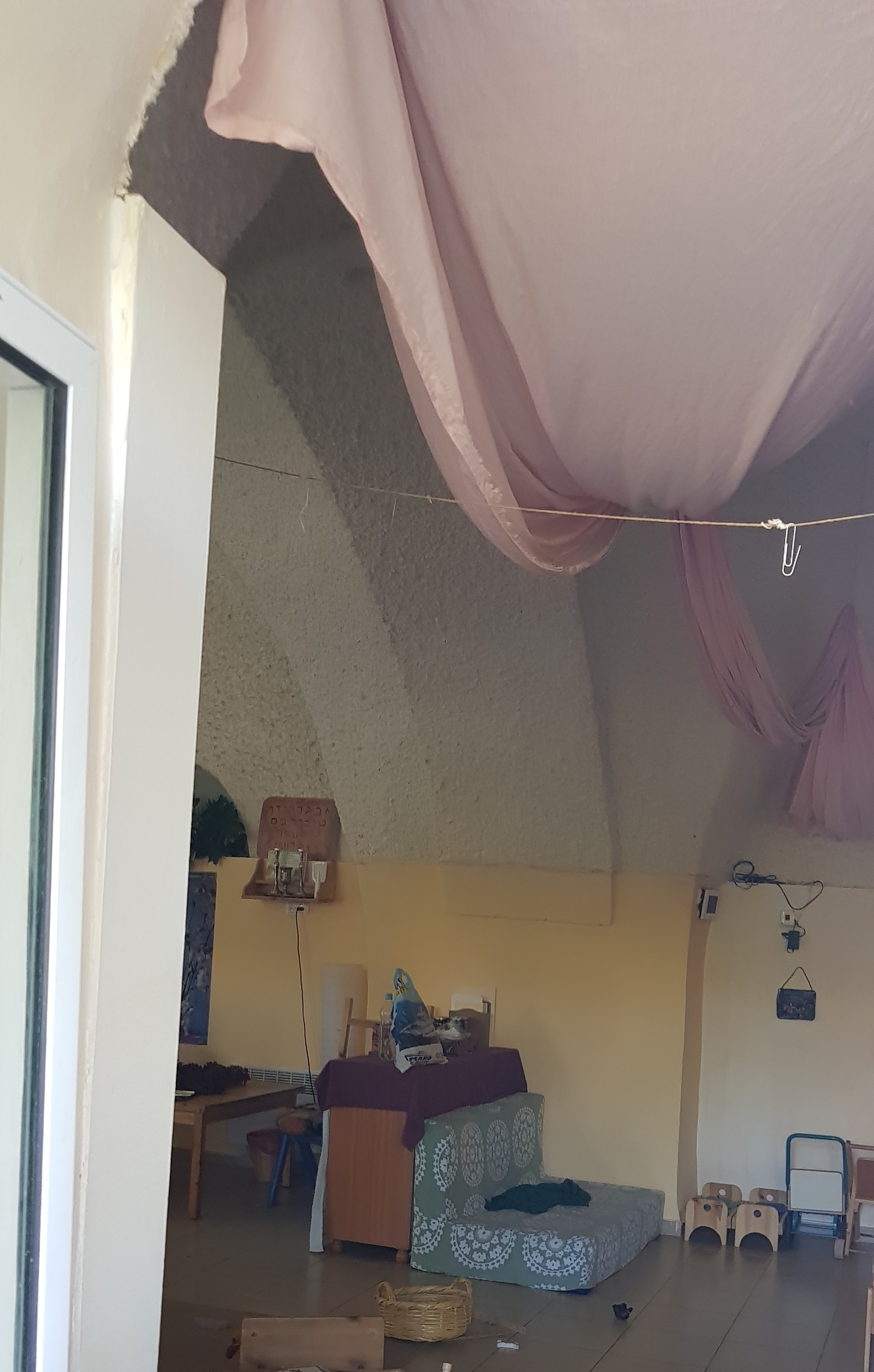 Jerusalem, Yemin Moshe, Ashkenazi Synagogue of Beth Yisrael - Glimpse through the window to room on the ground floor - now used as a kindergarten